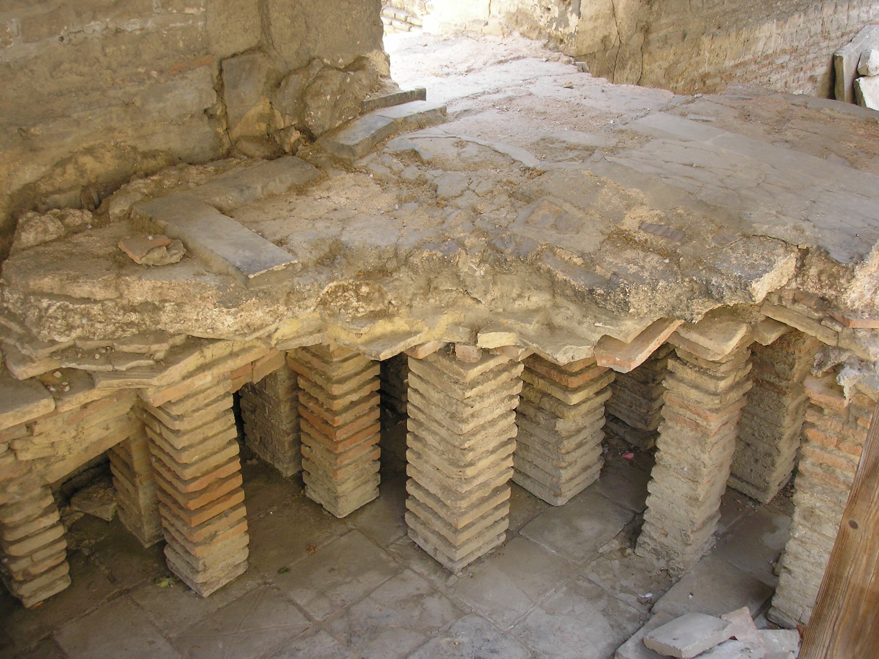 Arles_Thermes_de_Constantin_3_hypocauste.jpg